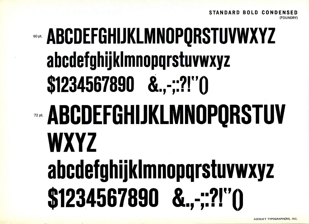 'Standard' is the American name for Akzidenz Grotesk